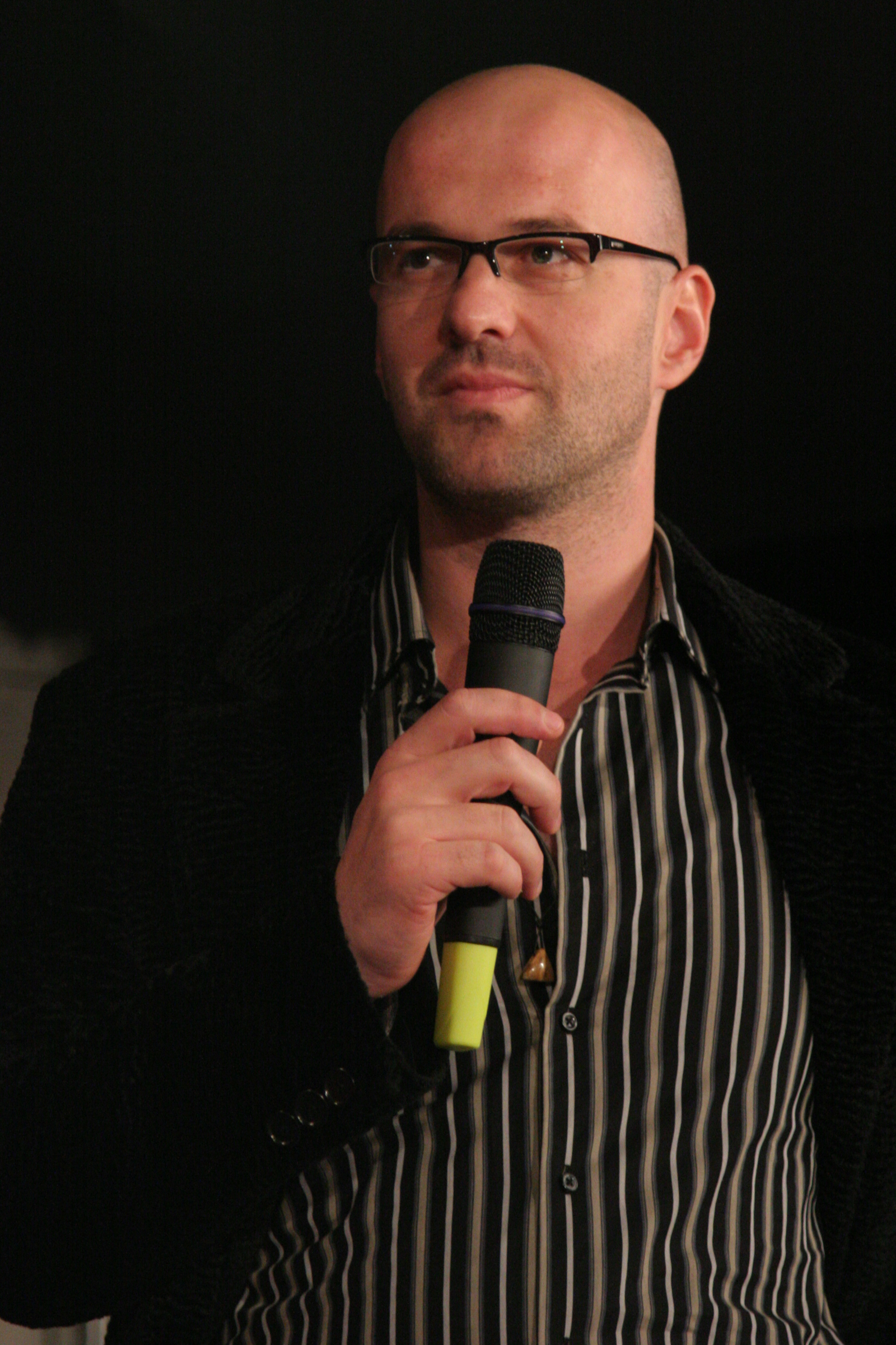 Velibor Topic at Dinard british film festival (France)